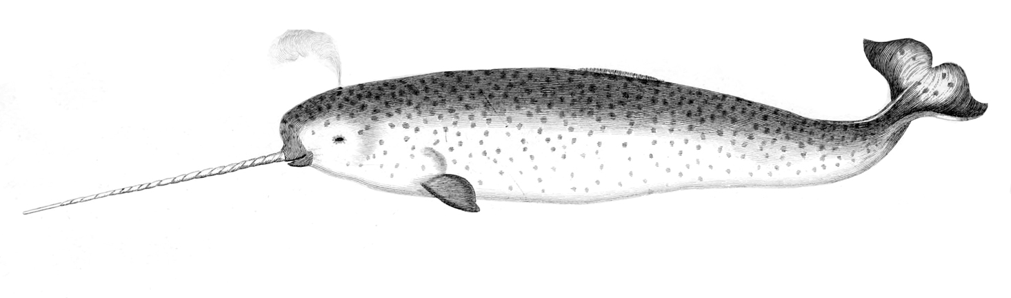 Crop of file in filename